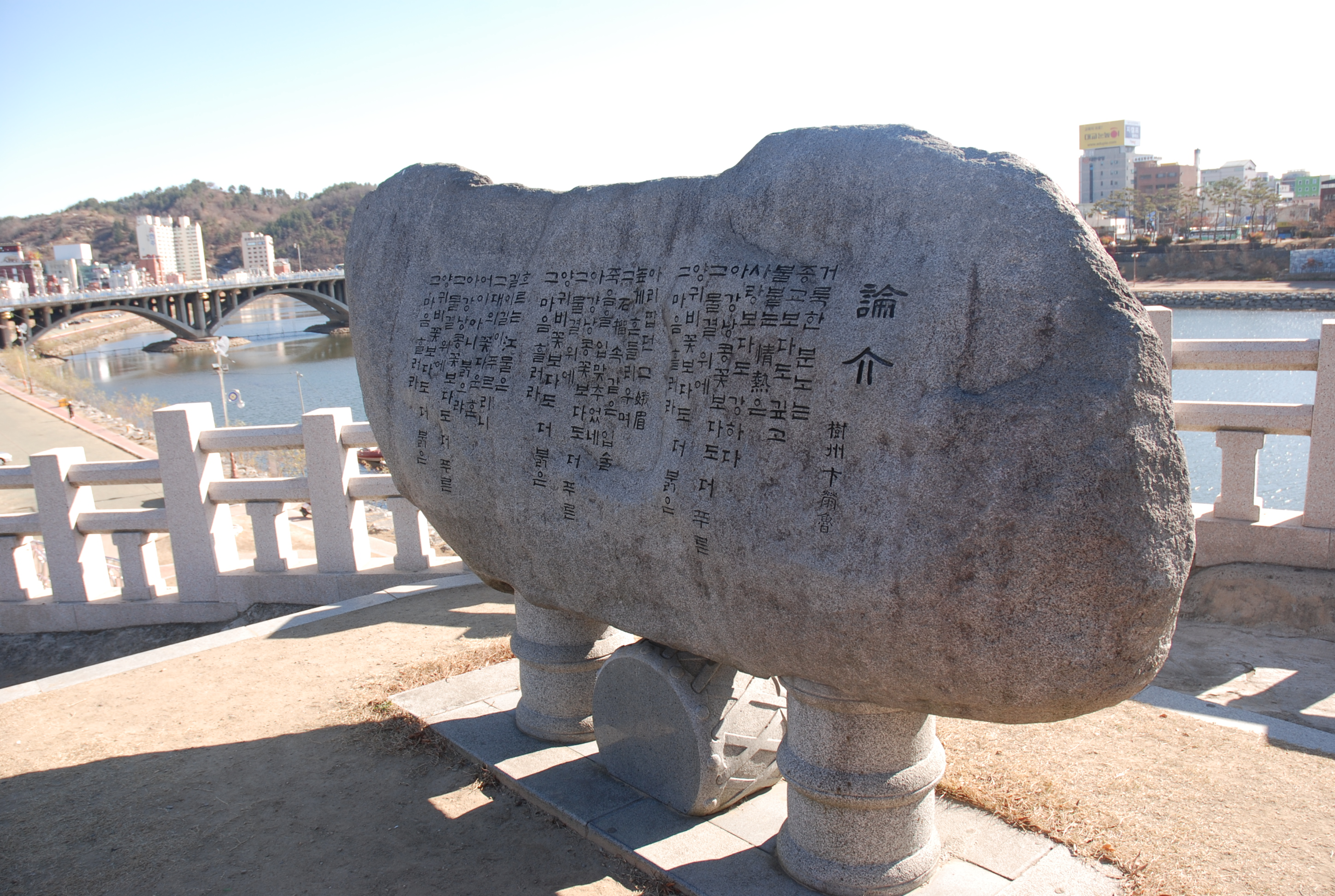 Poem monument dedicated to Nongae by Byun young-ro, a korean poet